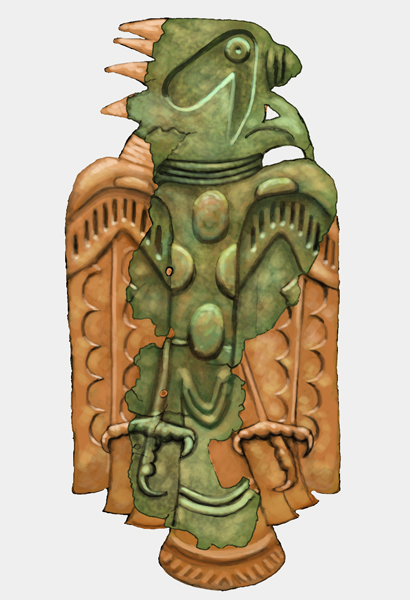 An illustration of a Mississippian culture avian themed repoussé copper plate found at the Toul Creek Site in Baxter County, Arkansas. Reconstructed sections taken other Malden style plates, as all of the plates are thought to have been made by the same workshop or artist.[1]